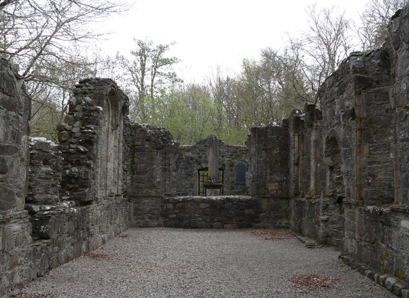 Dunstaffnage Chapel, Argyll and Bute, Scotland - interior seen from the west